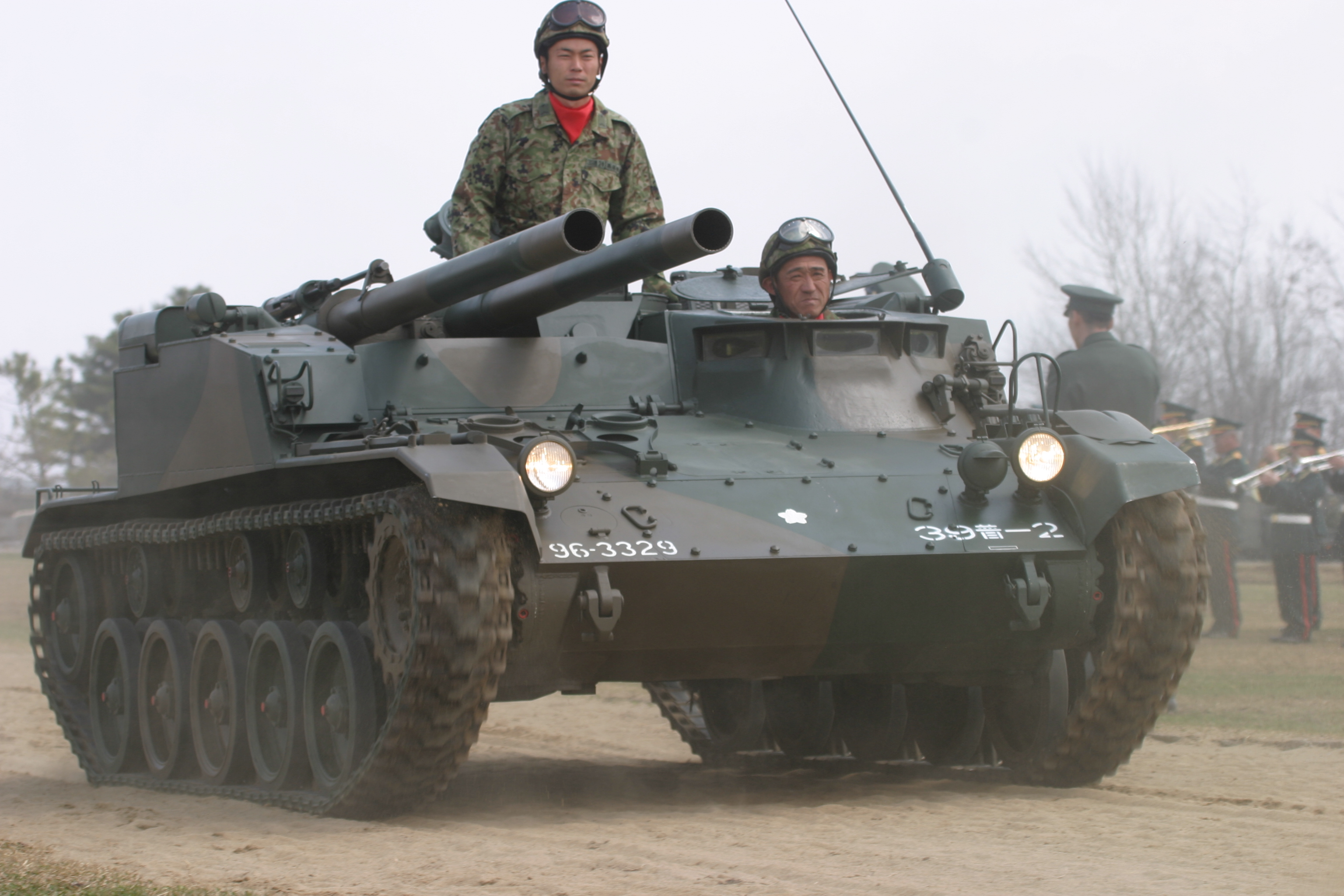 Subject: Type60 RR(SP) of the JGSDF displayed at JGSDF CAMP Hirosaki Source: photo by EarlyBird, taken 2006/4/30